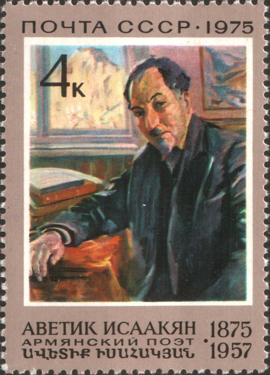 Stamp of the USSR, Avetik Isahakyan, 1975, 4 k.